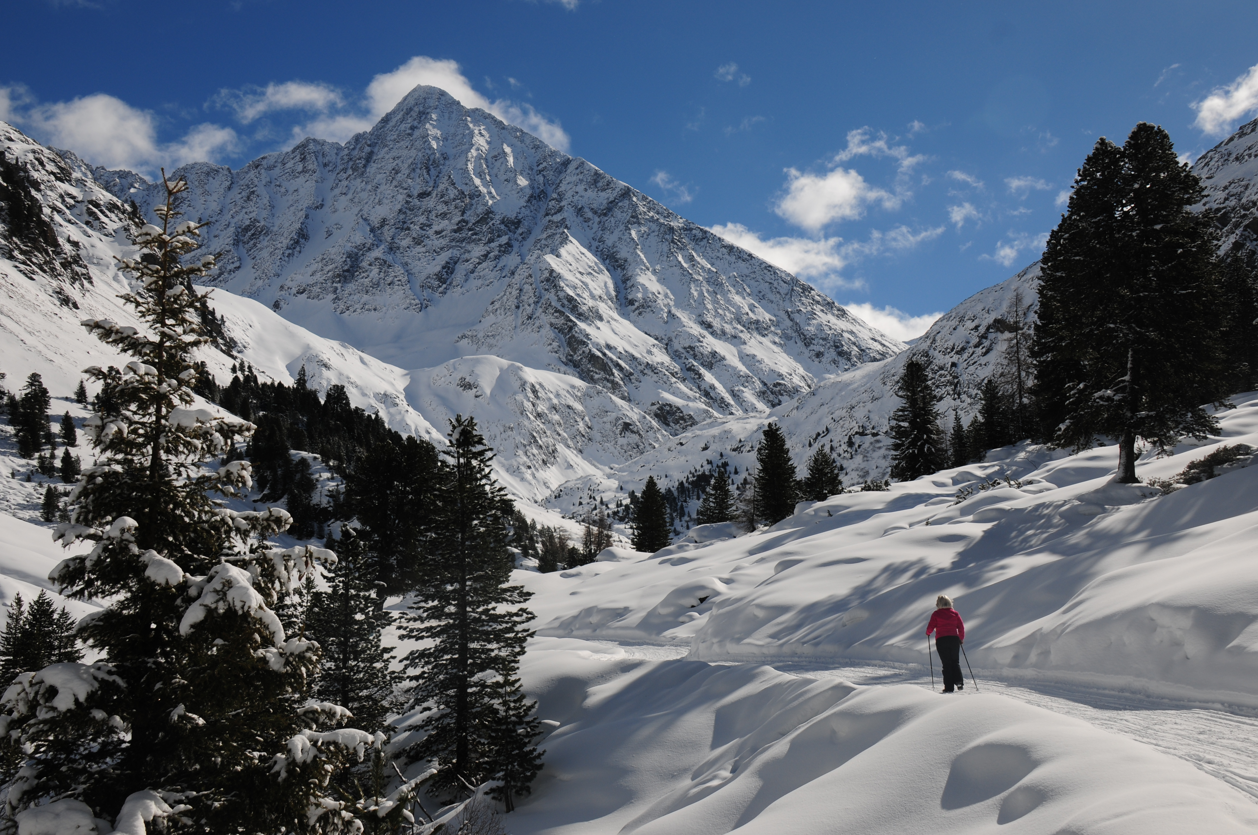 A magnificent view at the Schrankogel 3497 m just before we reached Vordere Sulztalalm 1900 m